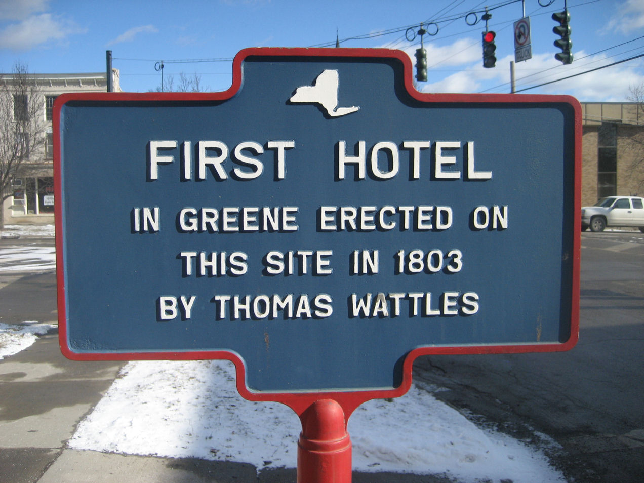 Historic marker of the first hotel in Greene, NY. Erected on this site by Thomas Wattles in 1803.